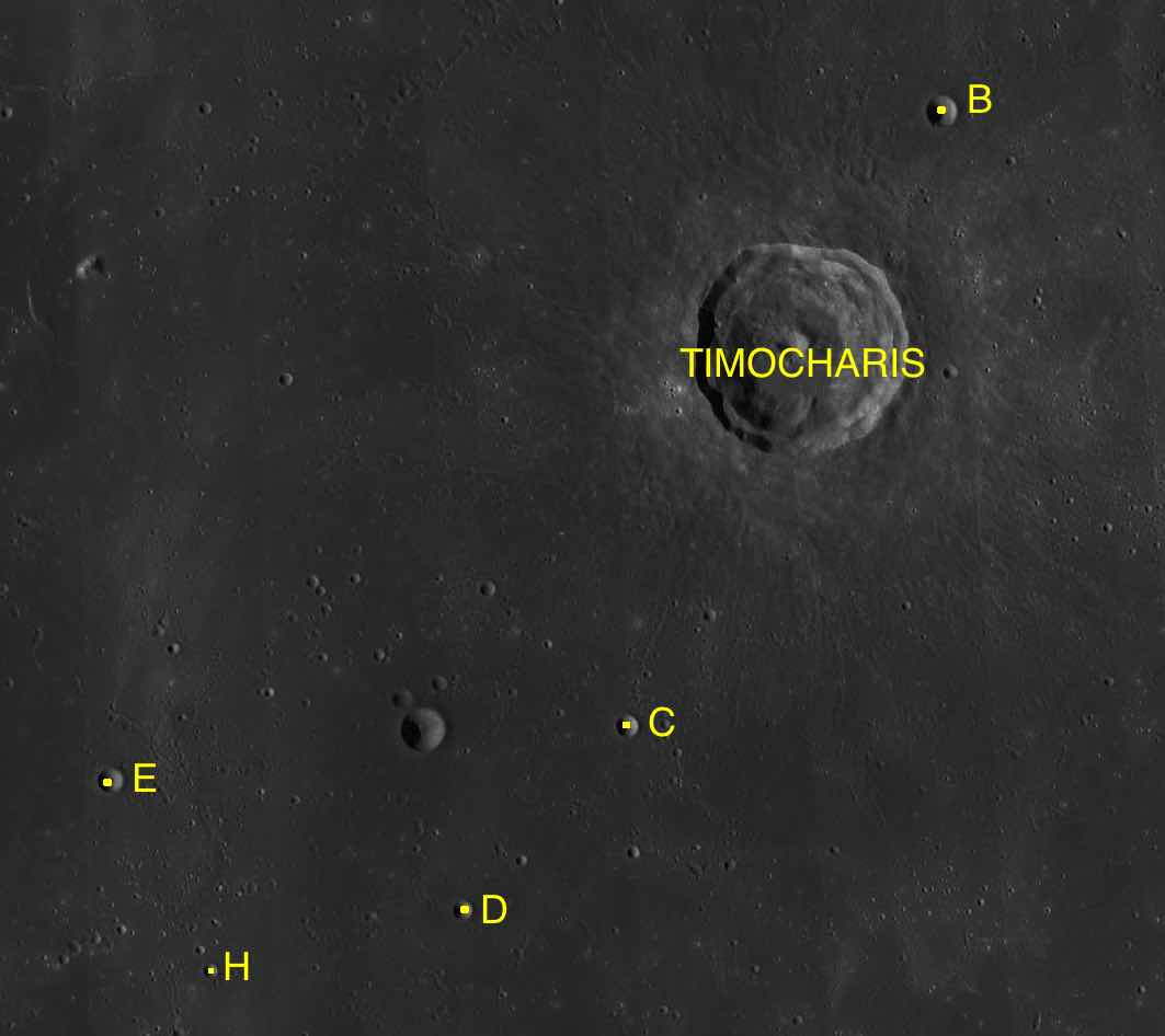 Part of the chart LAC-40 used for the presentation